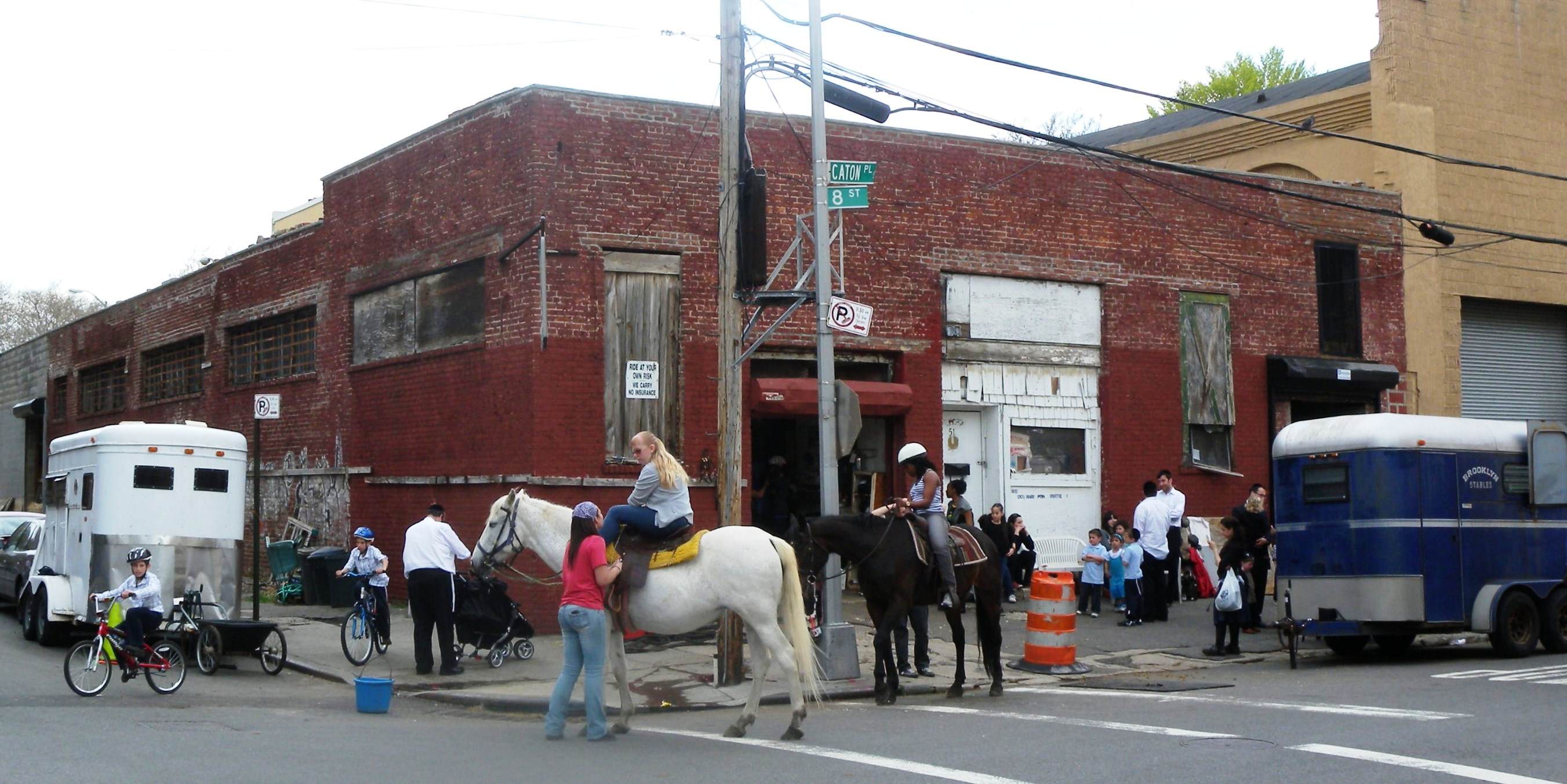 Looking north at Kensington Stables on a cloudy midday. See also File:Kensington Stables 57 Caton Pl jeh.jpg